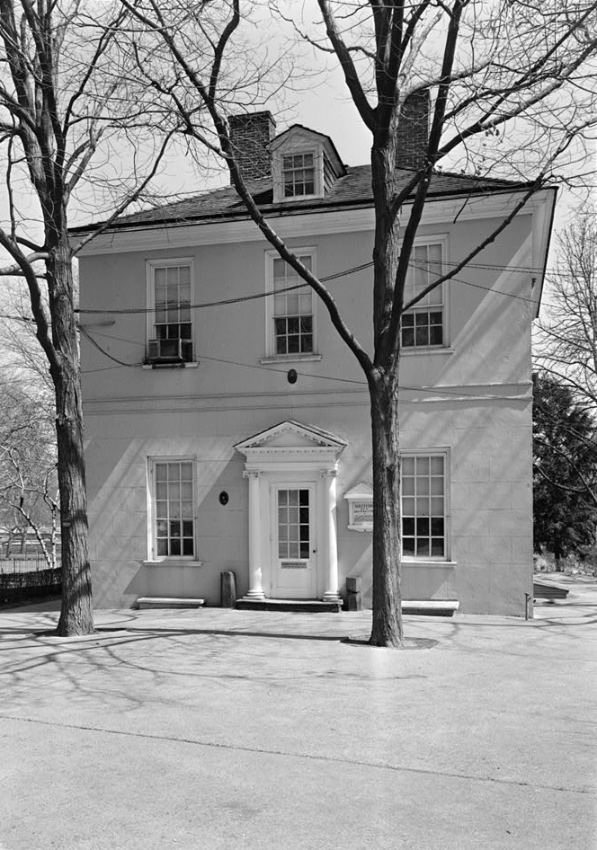 Solitude, built 1785 by John Penn, William Penn's grandson, and located in West Fairmount Park on the grounds of the Philadelphia Zoo at 3400 West Girard Avenue Philadelphia, PA 19104